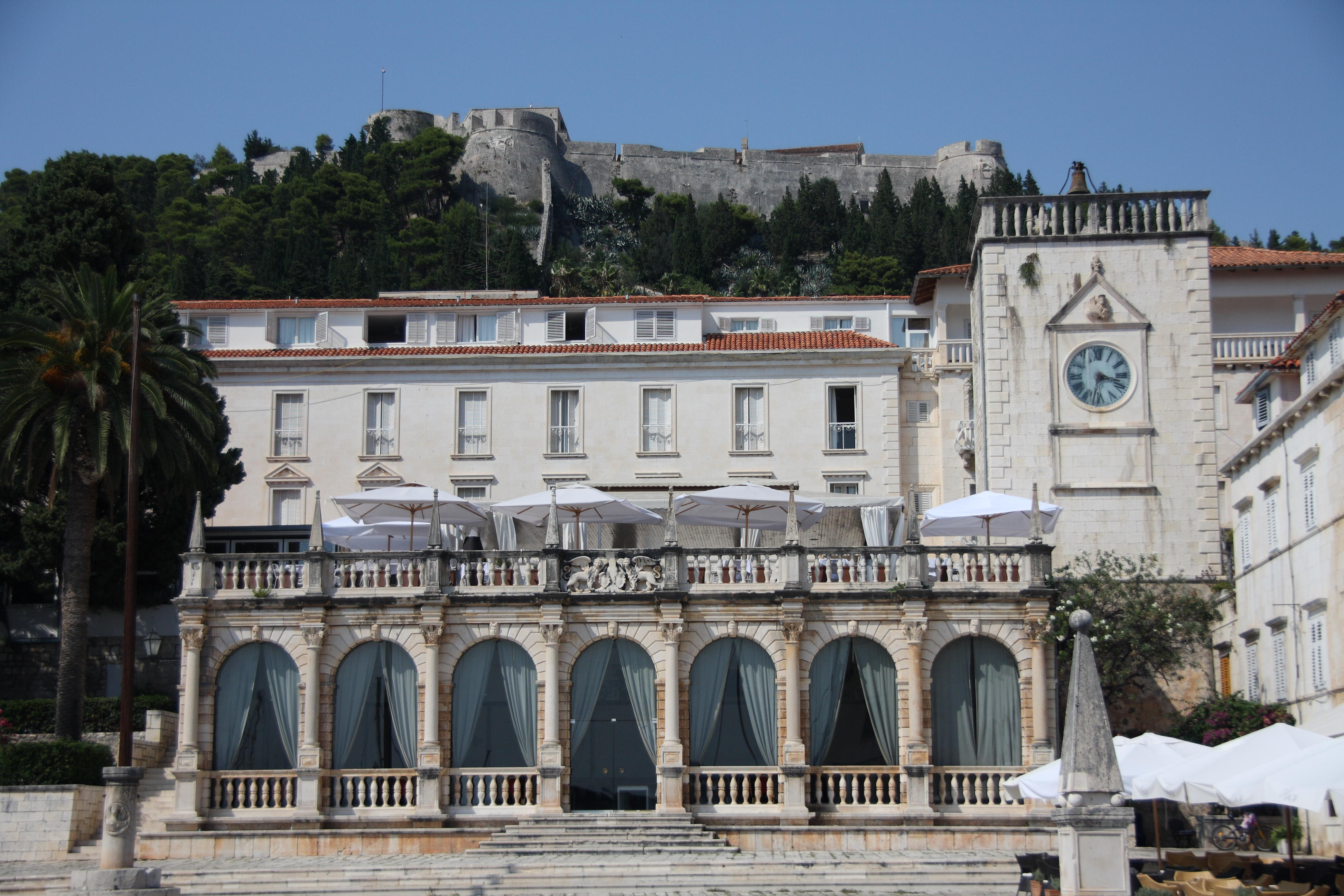 The Loggia at the townplace of Hvar with the fortress Spanjola in the back.